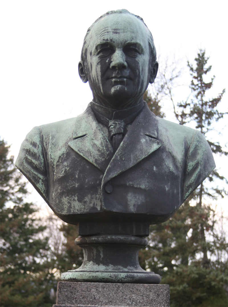 Bernhard Getz (1850–1901), Norwegian professor of law, from his grave in Oslo